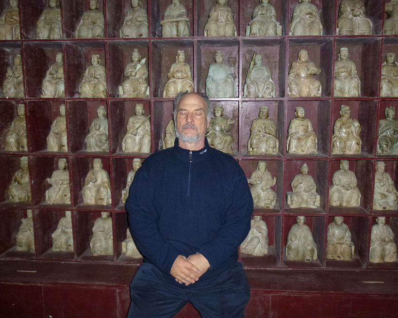 This is a picture I took of Bruce Frantzis sitting in a cave he gave me.